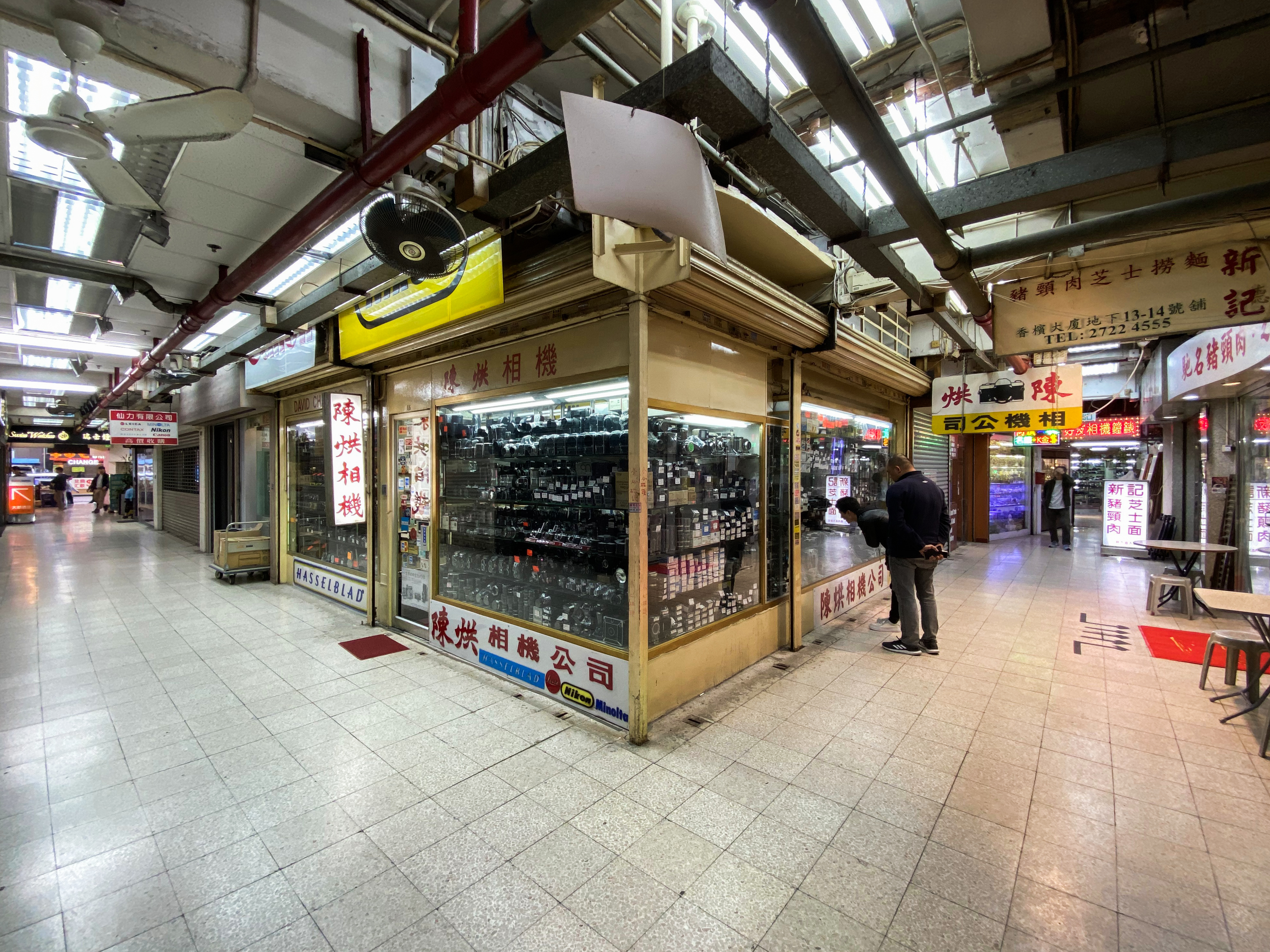 Champagne Court GF shops